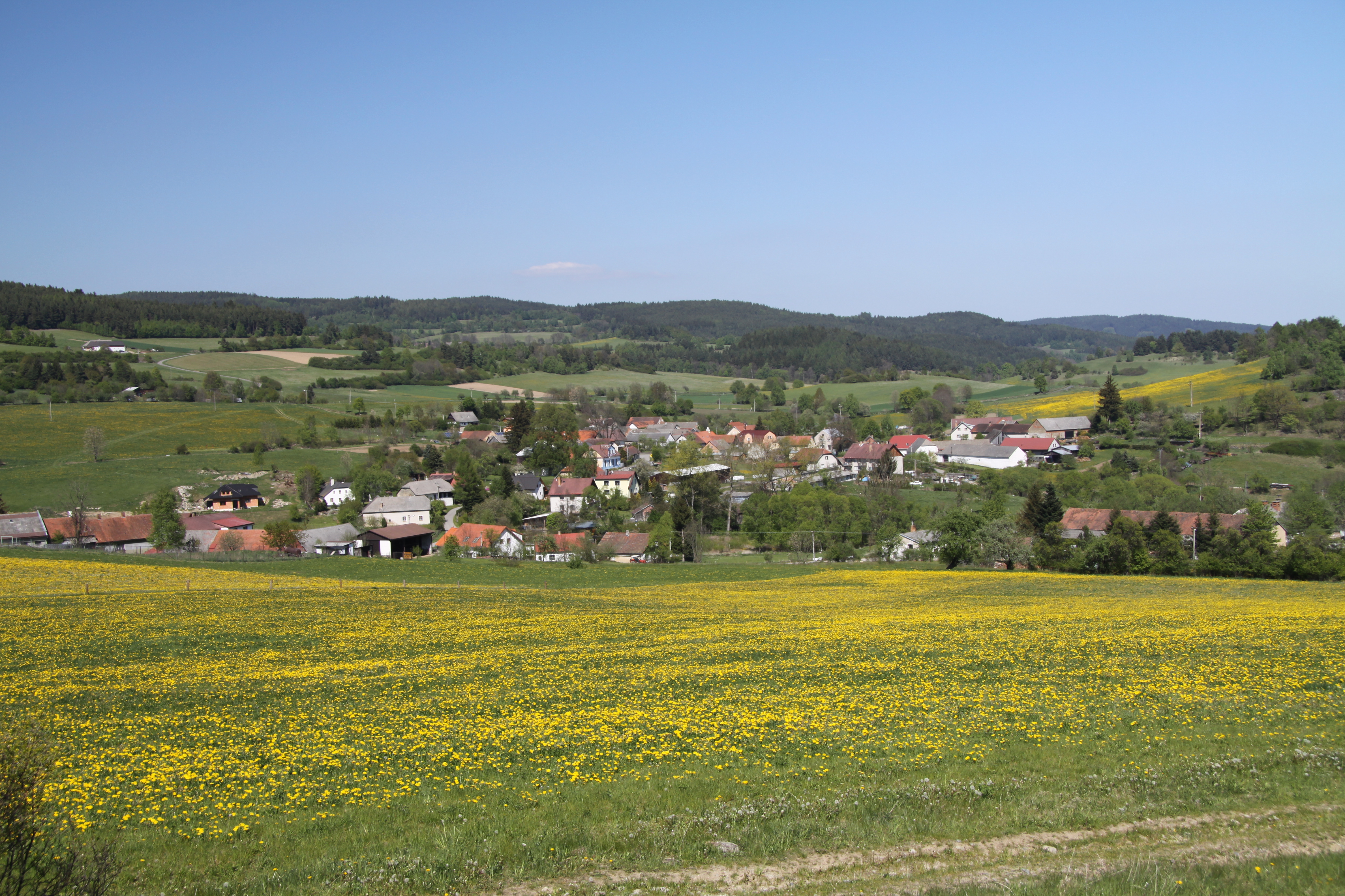 Onšovice village, part of Čkyně, Prachatice District, Czech Republic - Google Maps - Google Earth